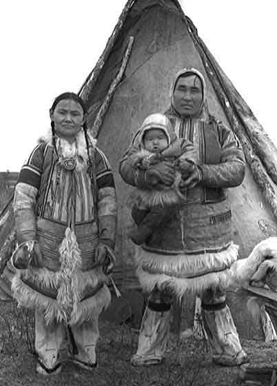 Nganasans, native people of Taimyr peninsula in Siberia, the northernmost human residents of the planet.